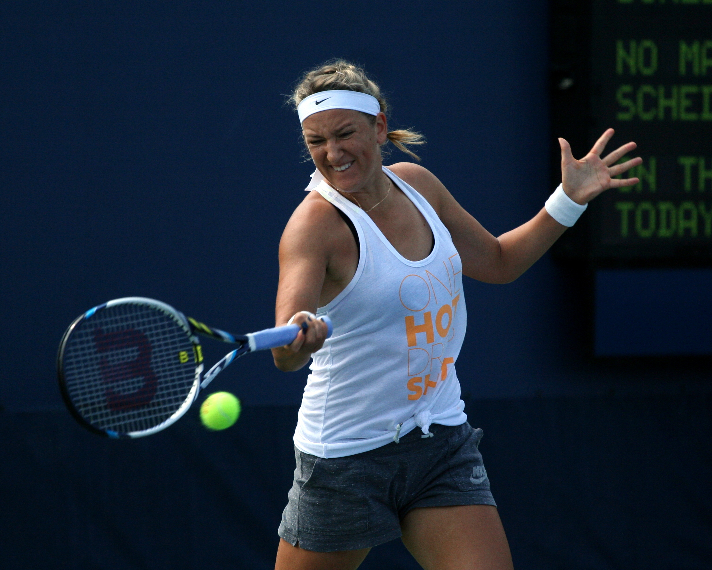 U.S. Open practice Tuesday, Aug. 26, 2014